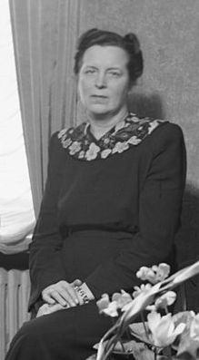 The new president with his daughter, architect Annikki Paasikivi, and wife Alli.